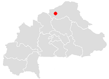 The map shows the location of the town of Djibo in Burkina Faso.